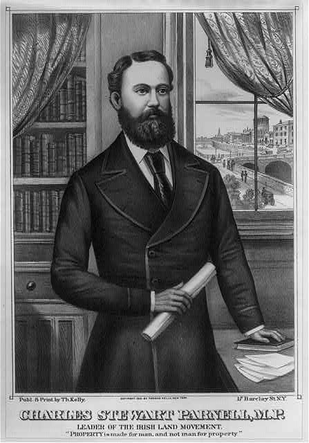 Portrait of Irish political leader Charles Stewart Parnell (1846-1891). "Charles Stewart Parnell, M.P. Leader of the Irish Land Movement. 'Property is made for man, and not man for property.'"